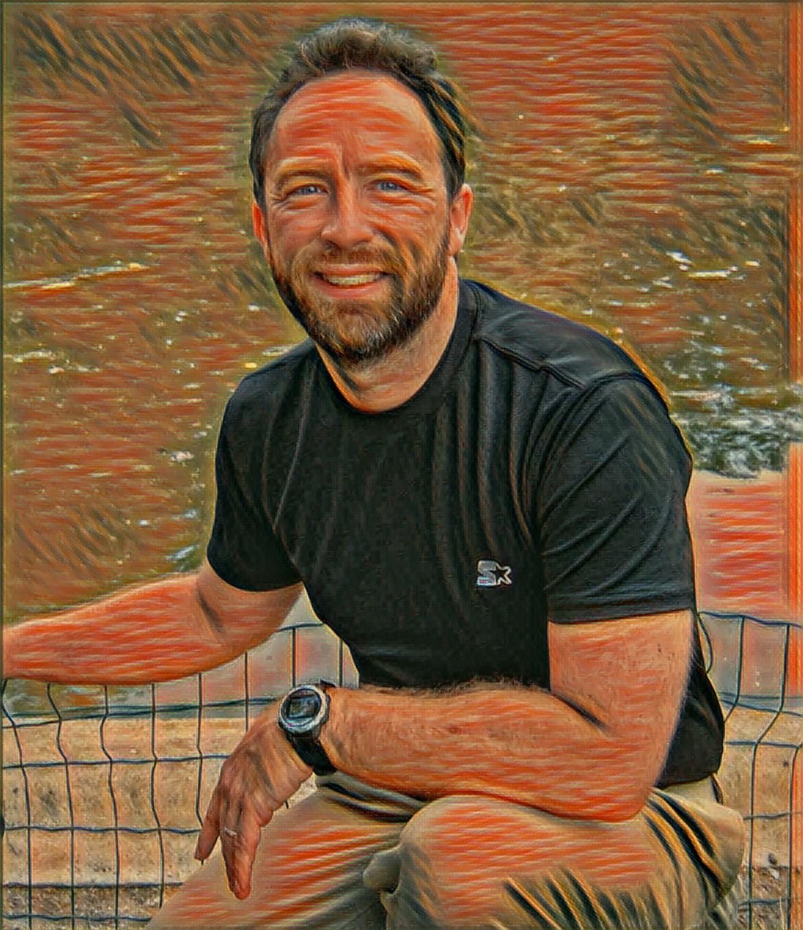 style of Munch's The Scream transferred onto a photo of Jimmy Wales using neural style transfer